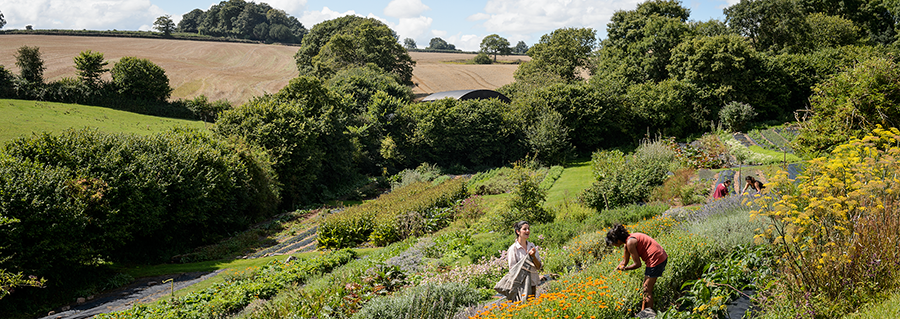 The on-site Herb Field where fresh herbs are grown for the Organic Herb Trading Company to sell to their customers